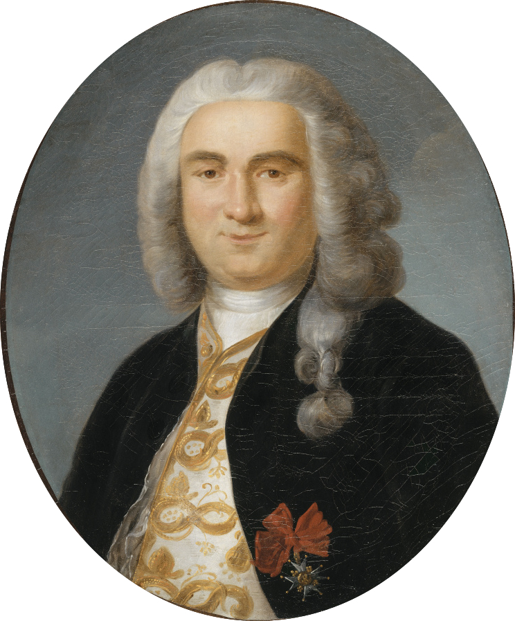 Portrait of Bertrand-François Mahé de La Bourdonnais (1699-1753), French admiral